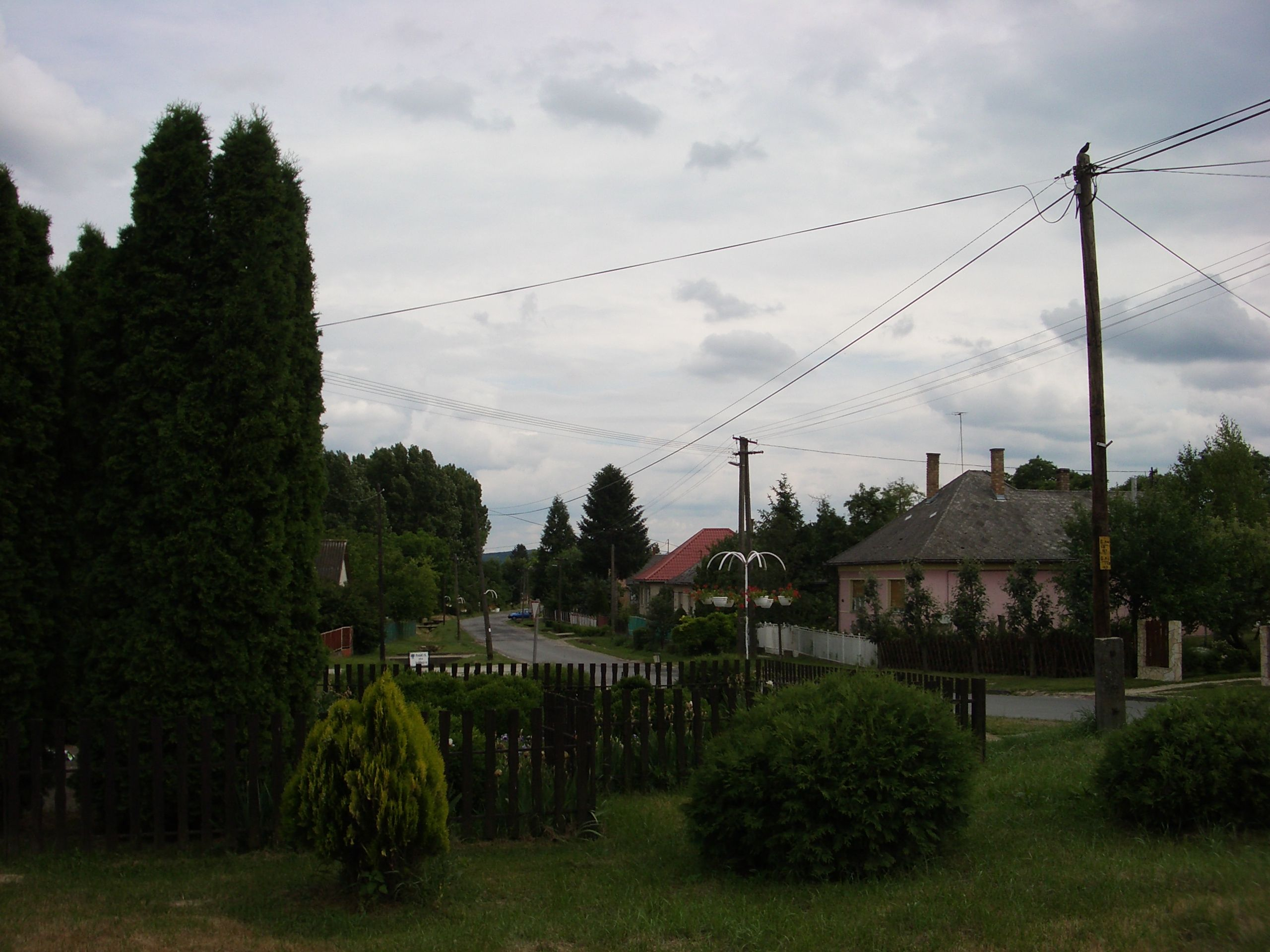 View down Kossuth Lajos u. in Torvaj (Hungary) near the protestant church.